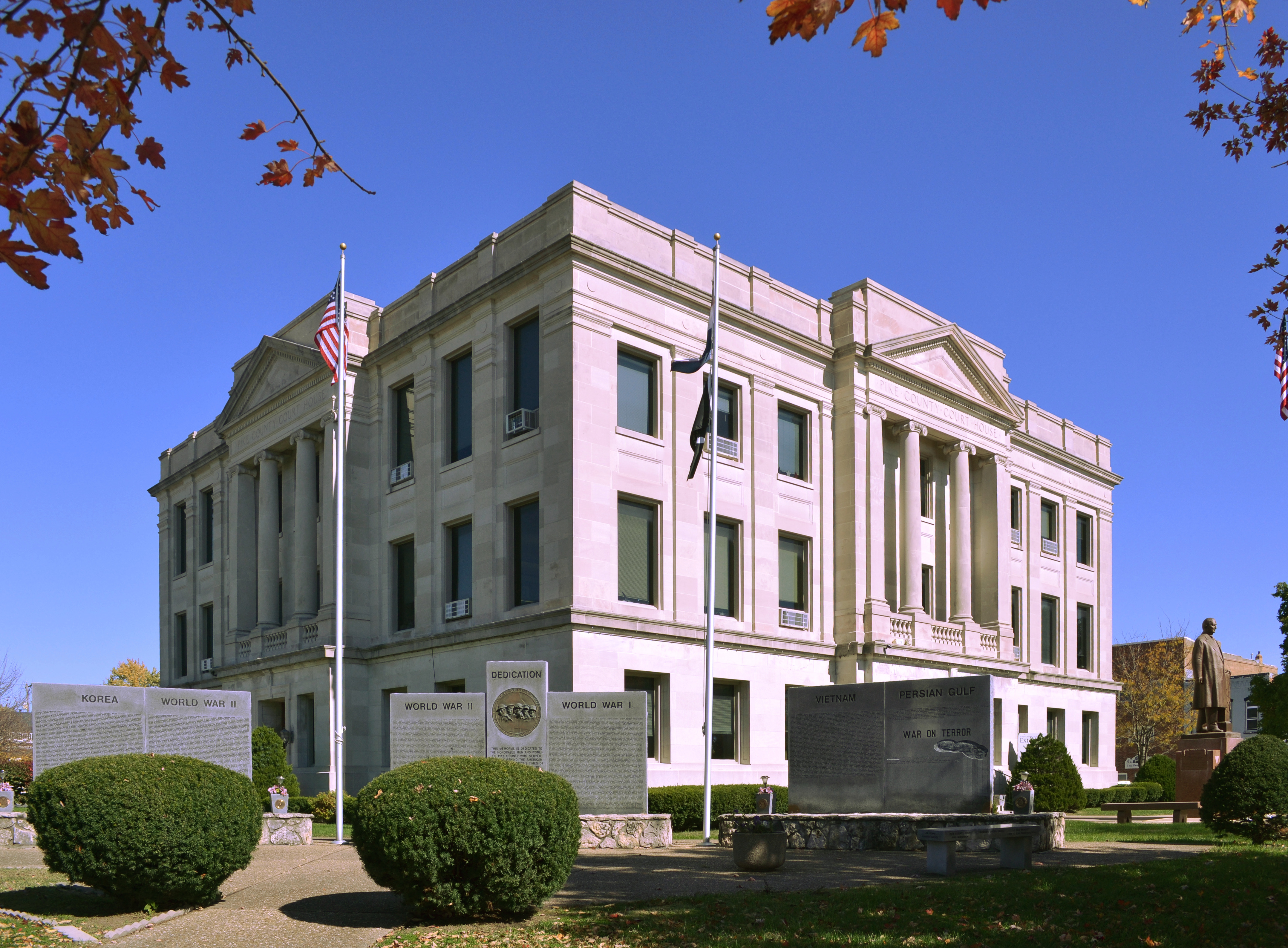 Pike County, Missouri Courthouse. The statue in front is of Champ Clark